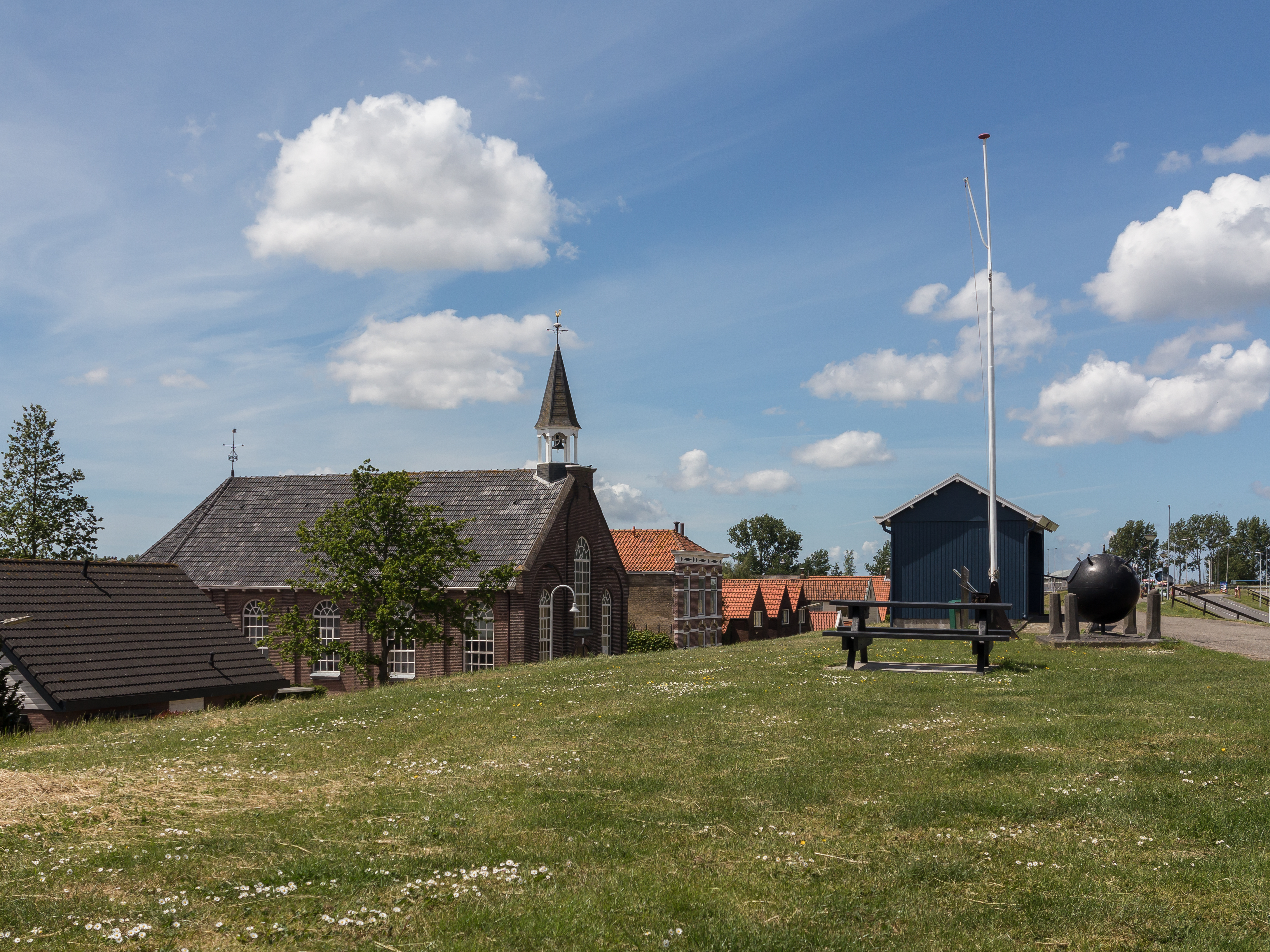 Bruinisse, refroemd church behind the dyke